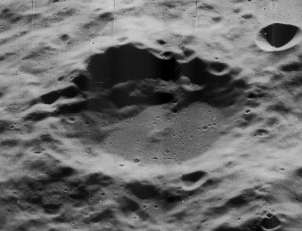 Oblique view of Kleymenov, on the far side of the moon, facing west.